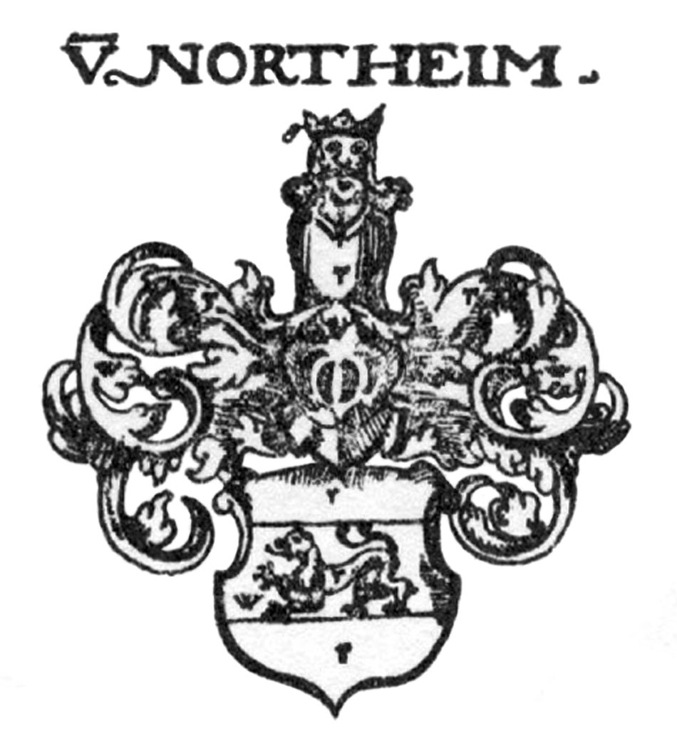 Coats of Arms of Northeim